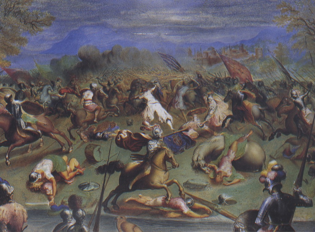 Miniatura di Valerio Mariani della Battaglia di San Fabiano